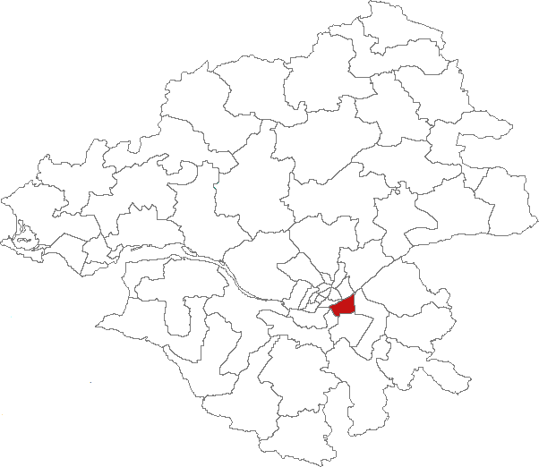 Map of canton of France : Canton de Nantes-10, Loire-Atlantique, France